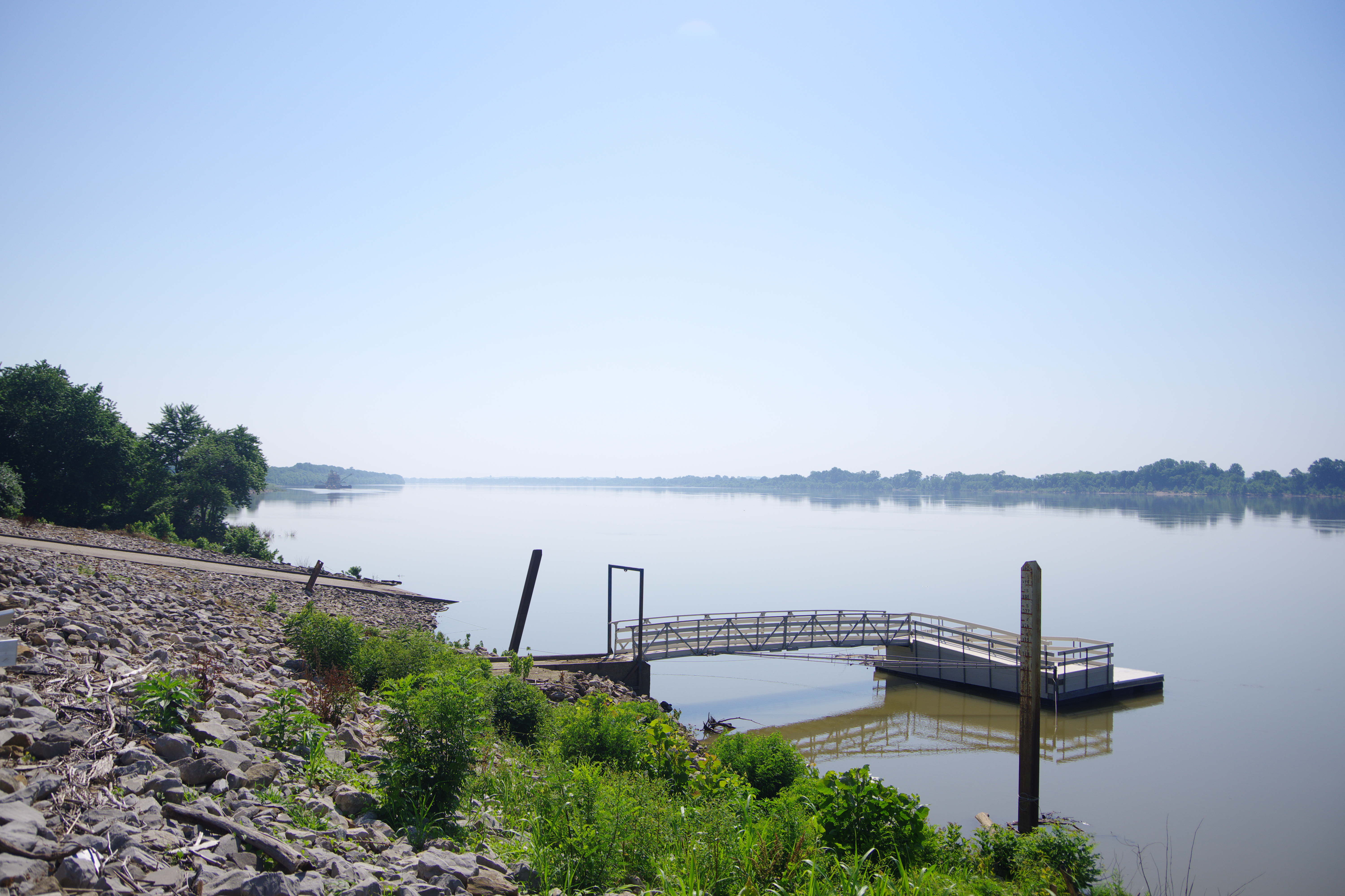 The Ohio River at Grandview, Indiana, United States.